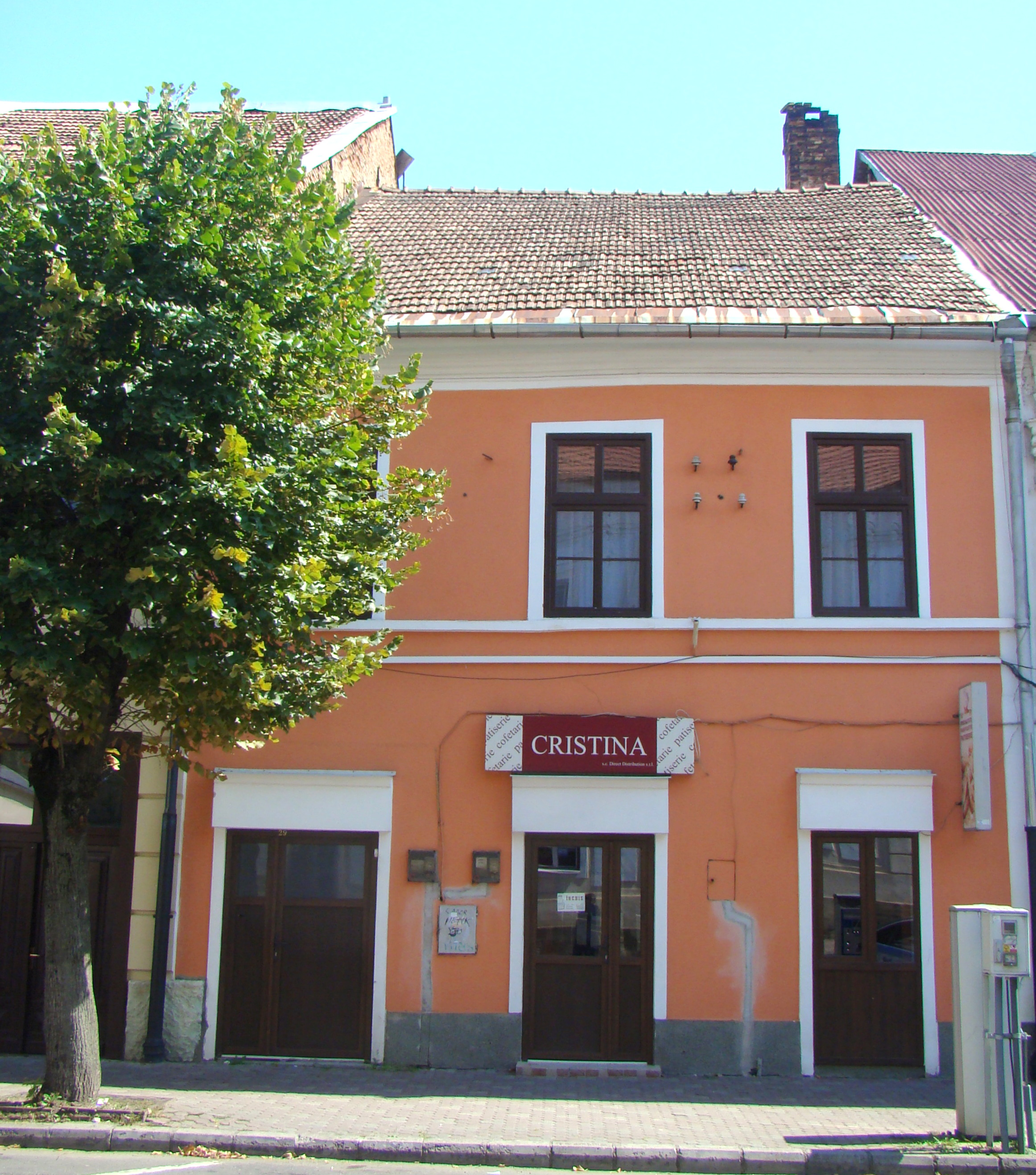 House, historic monument, in Bistrița, Gheorghe Șincai street 29